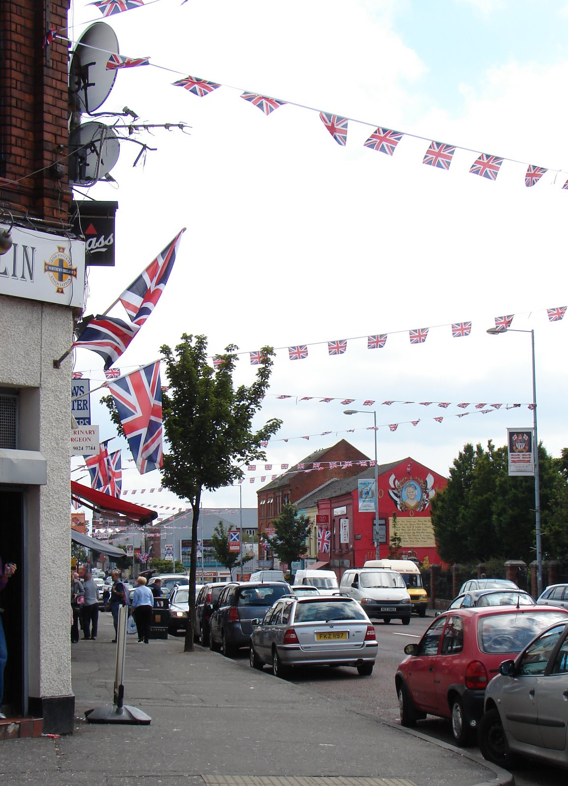 The Shankill Road in Belfast, Northern Ireland, during "The Twelfth" celebrations. The bunting is of the Union Flag.